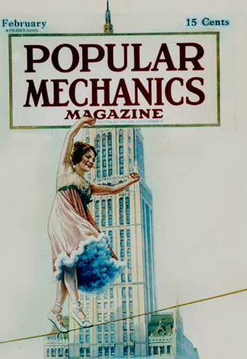 The cover of POPULAR MECHANICS magazine, February, 1917. Bird Millman is performing an exhibtion to raise government bonds for WWI.